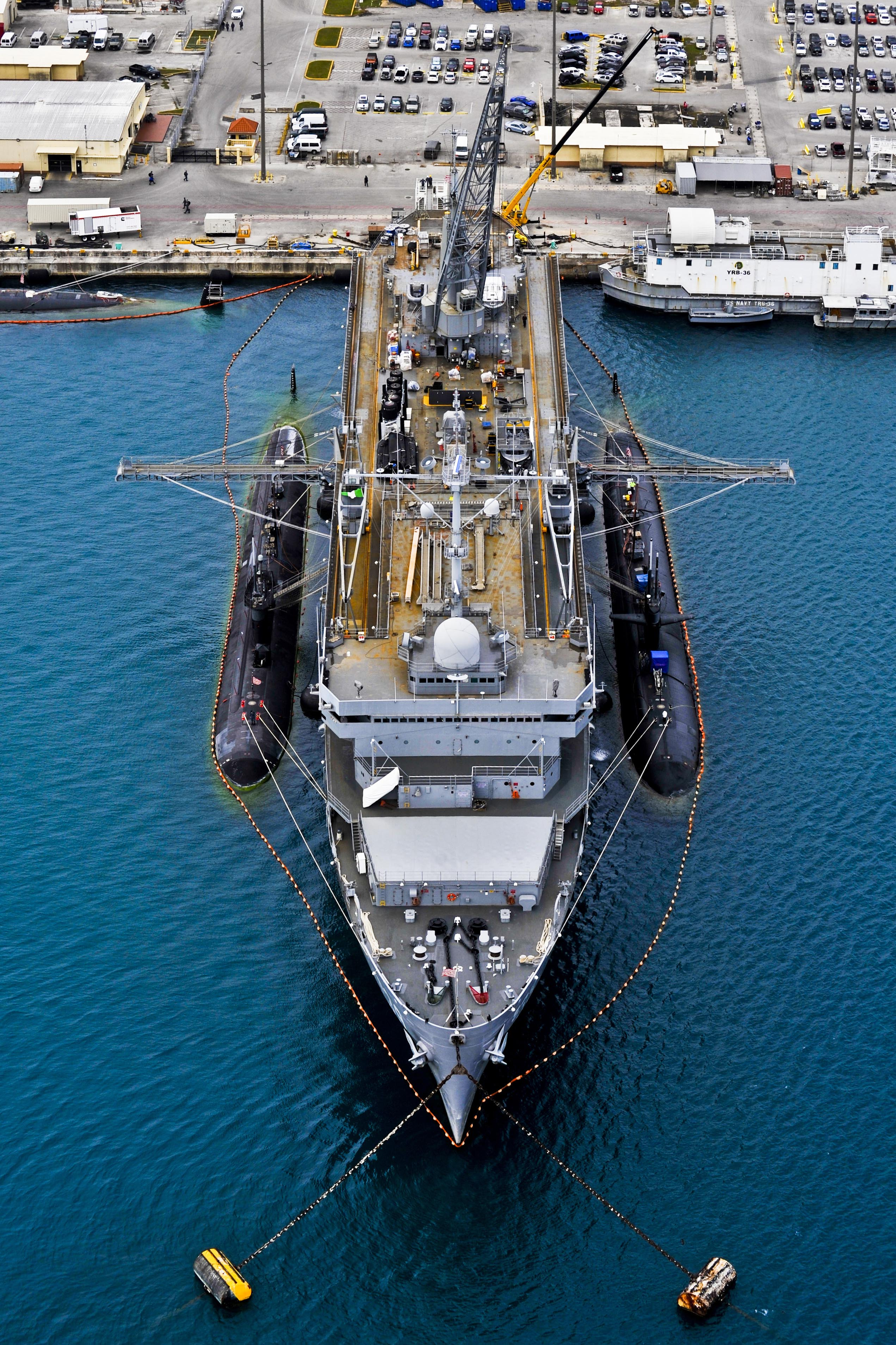 The U.S. Navy submarine tender USS Emory S. Land (AS-39) tends to the Los Angeles-class attack submarines USS Chicago (SSN-721), right, and USS Pasadena (SSN-752), left. Emory S. Land, homeported in Guam, provides maintenance, hotel services and logistical support to submarines and surface ships in the U.S. 5th and 7th Fleet areas of operations.